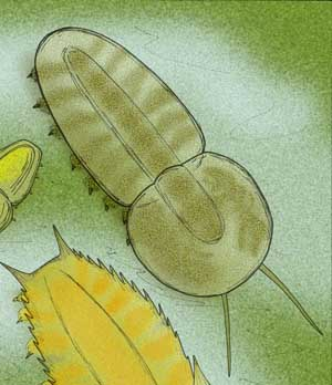 Misszhouia longicaudata, a blind, trilobite-like arthropod from the Chinese Cambrian lagerstätte Maotianshan Shale.